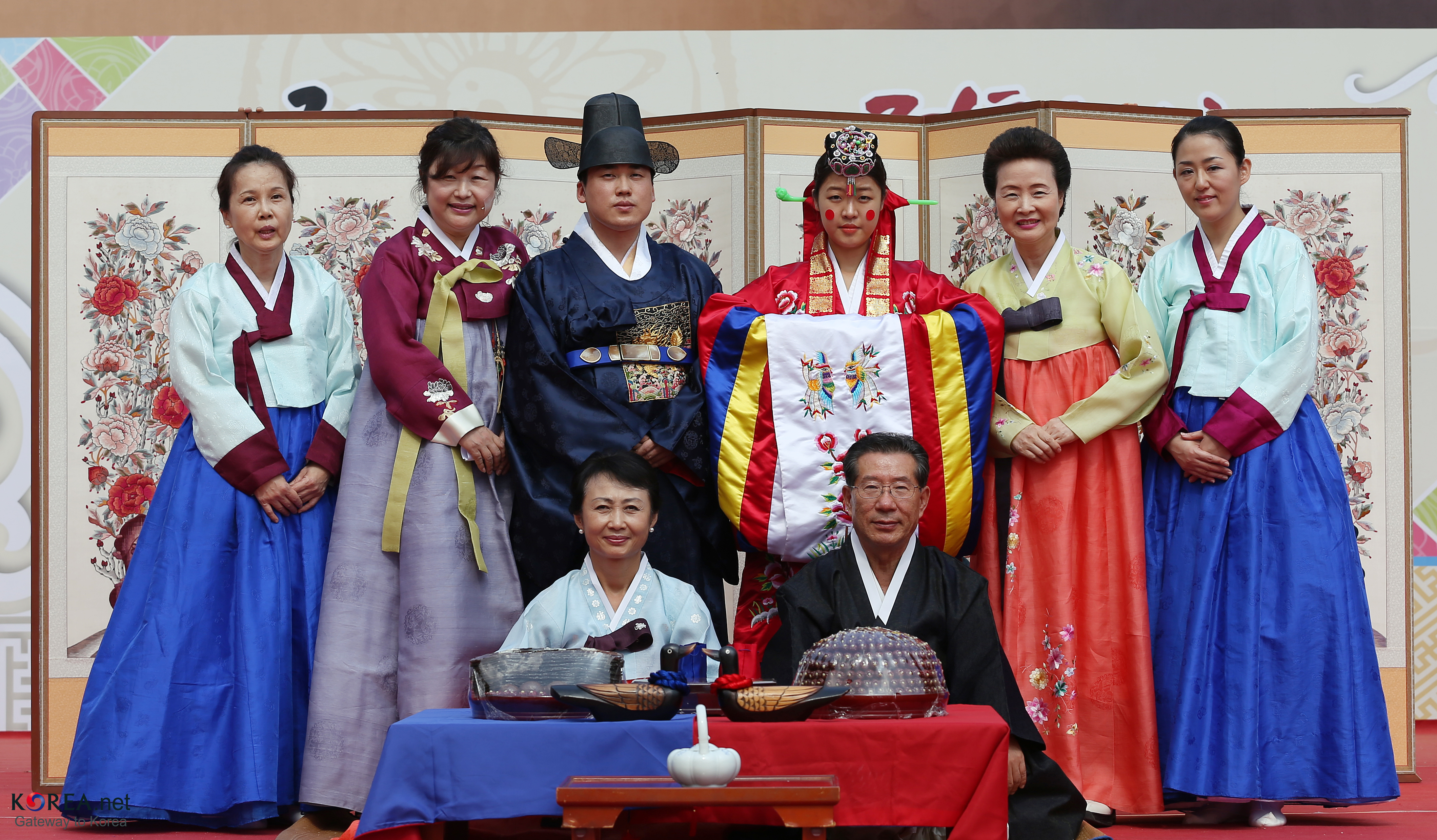 Taste Korea! Korean Royal Cuisine Festival Decoration Flowers on the Festivity Table This table flowers are decorated gorgeously on the food above the wedding table or above the altar dedicated to the Buddha or gods. In the Joseon Dynasty period, imitation flowers were in fashion, so it became a custom to decorate food in the royal palace when there was a banquet. Depending on the size and the number of dishes on the table, those of imitation flowers and even their names changed. – Institute of Traditional Korean Food 2013.10.02. Unhyeongung(Palace), Jongno-gu, Seoul Ministry of Culture, Sports and Tourism Korean Culture and Information Service ( JEON HAN 궁중과 사대부가의 전통음식축제 궁중의 꽃 상화(床花) 상화(床花)는 잔칫상이나 전물상(奠物床: 부처나 신에게 올리는 음식이나 제물을 차려 놓은 상)에 꽂아 놓는 조화로 신불에게 올리는 제물을 장식하기 위해 가화(假花)를 만들어 화려하게 장식한다. 조선시대에는 종이꽃이 크게 유행하여 궁중음식 위에 종이꽃을 꽂는 풍습이 있었다. 잔치와 크기와 음식의 종류에 따라 꽃의 크기와 명칭이 달랐는데 예를들어 수파련(水波蓮)의 경우 큰 잔치가 있을 때 연꽃 세 송이를 한 가지에 달리도록 만들었다. – (사)한국전통음식연구소 운현궁, 종로구 문화체육관광부 해외문화홍보원 코리아넷 전한